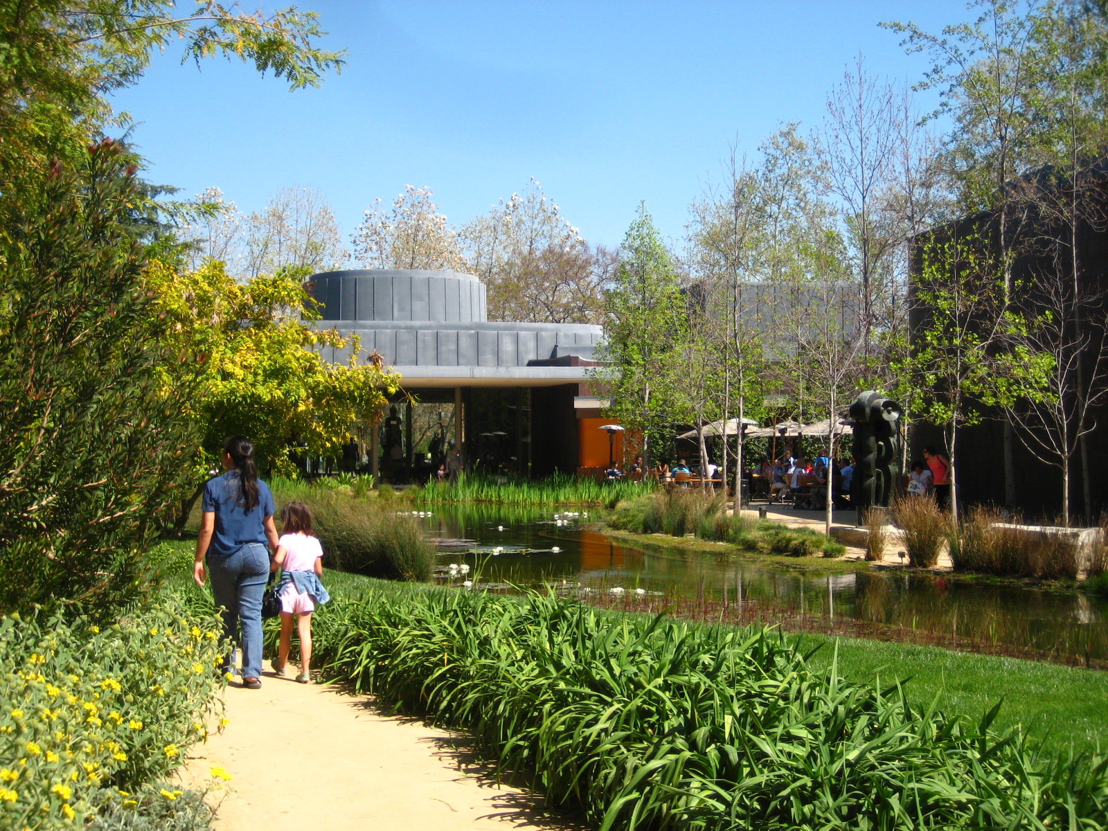 Outdoor sculpture and strolling garden at the Norton Simon Museum, Pasadena.